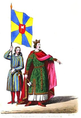 Baldwin VII, Count of Flanders